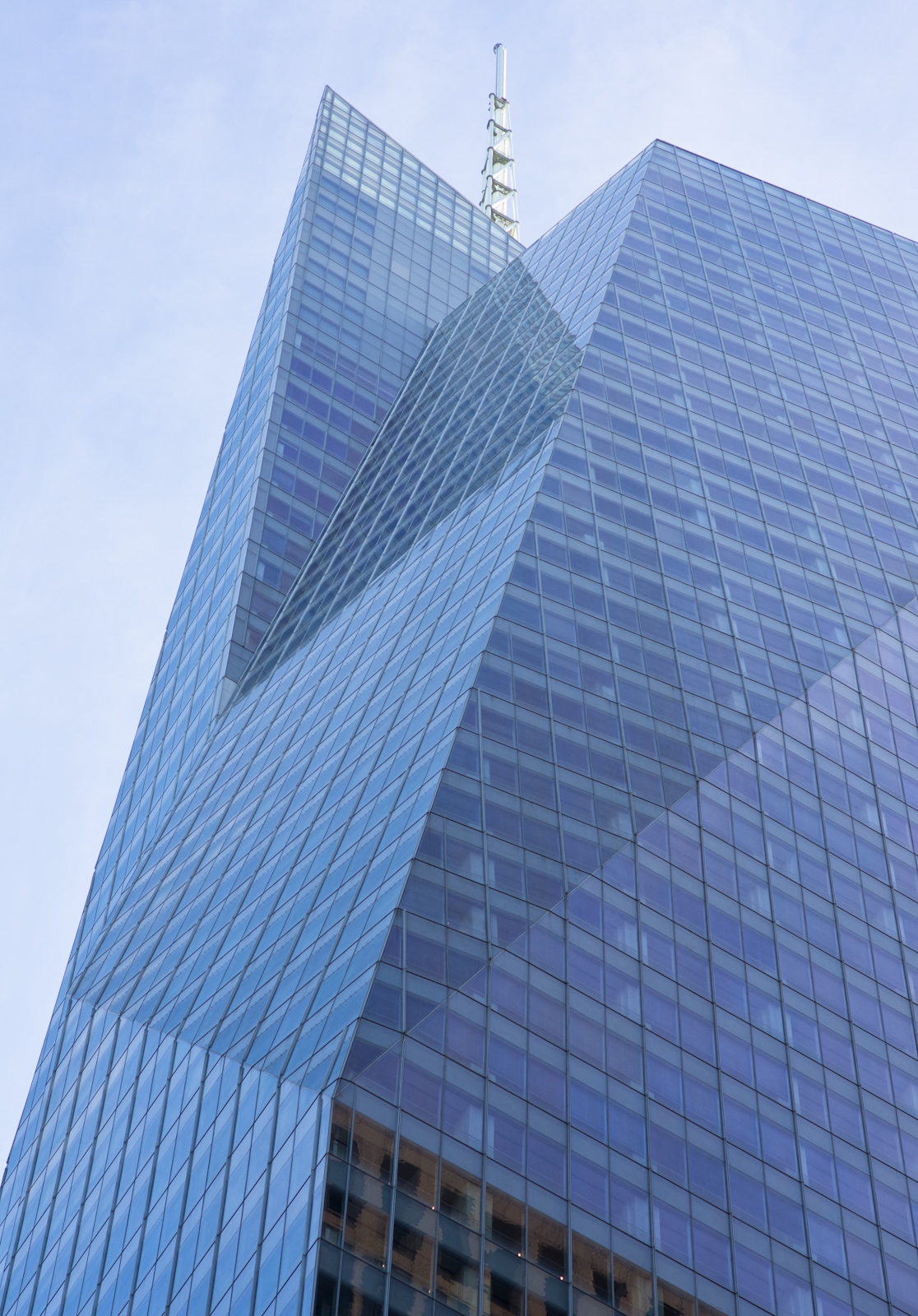 Looking upwards the Bank of America Tower in New York City